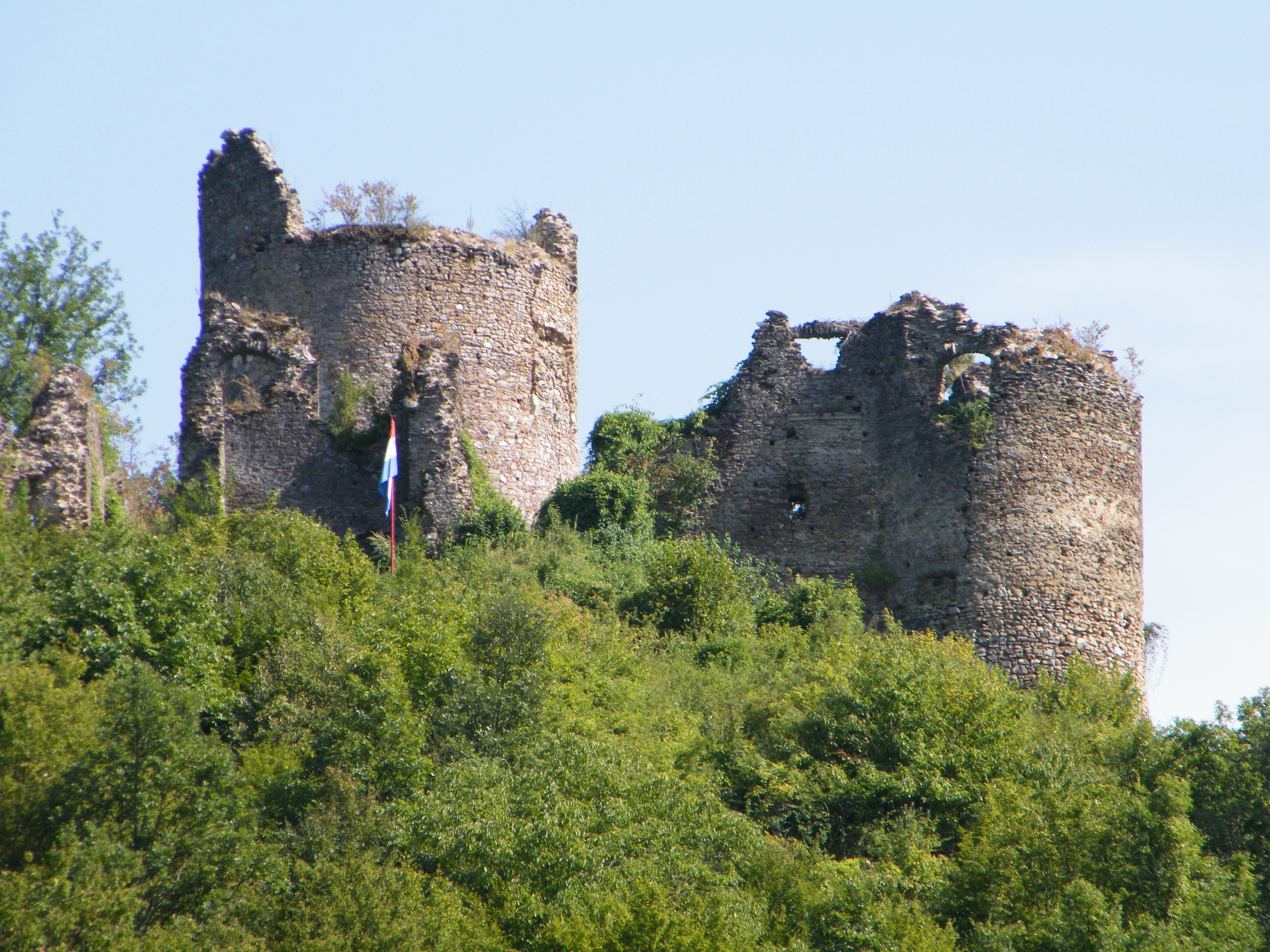 View from main street on the Gvozdansko castle ruin.